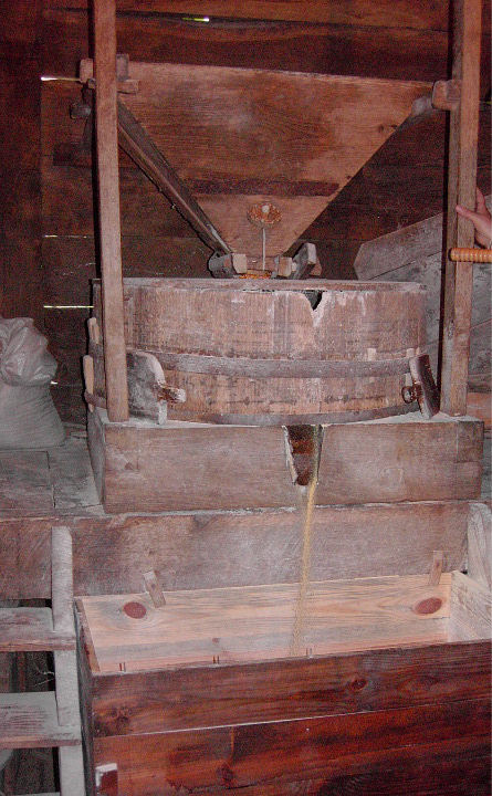 Old Corn Mill in Rastoke, Slunj, Croatia. Summer 2004. Uploaded by user Neoneo13.